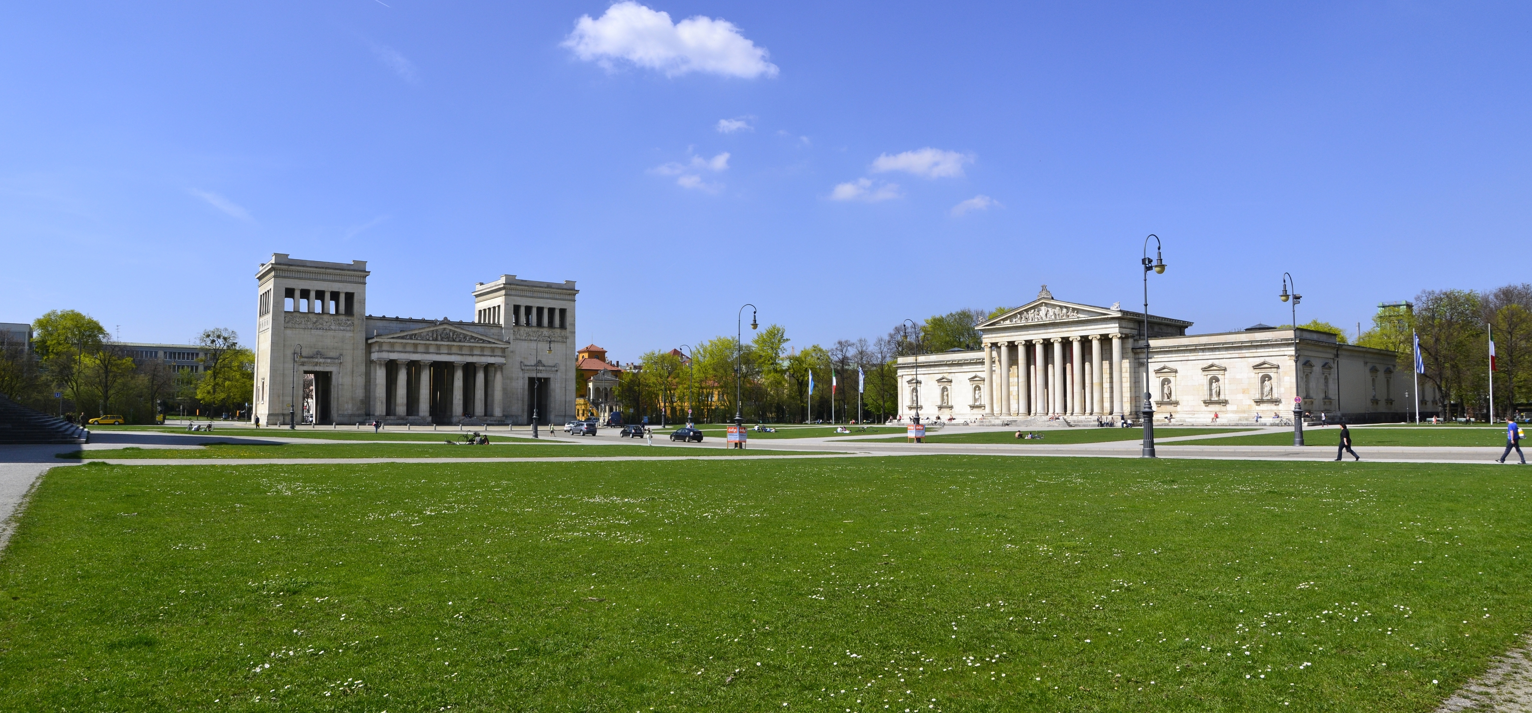 Propyläen (left) and Glyptothek (right) at the Königsplatz in Munich.